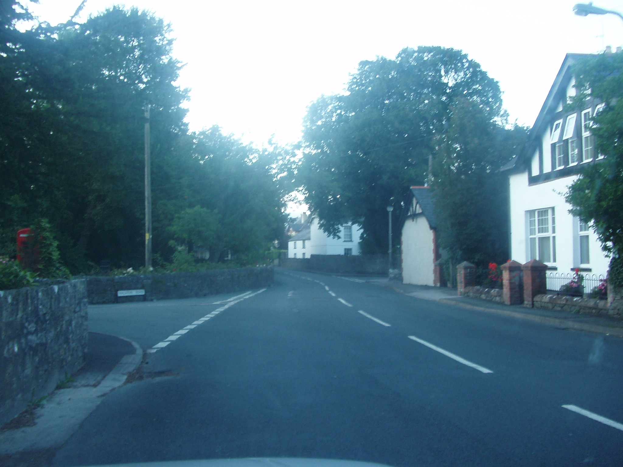 Wenvoe village, Vale of Glamorgan, south Wales, UK